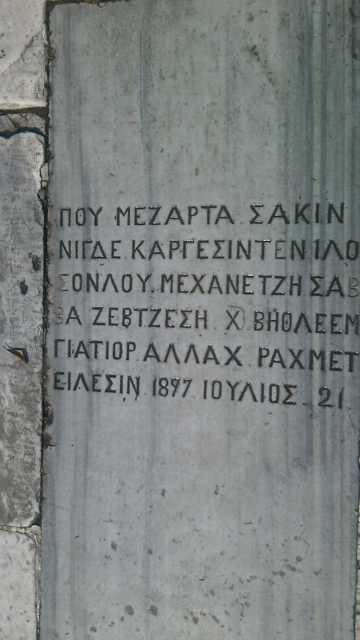 Karamanli Turkish (Turkish language written in Greek script) gravestone: Begins with "Bu mezarda ... yatıyor" (... lies in this grave) and ends in "Allah rahmet eylesin" (God's mercy descend on...)